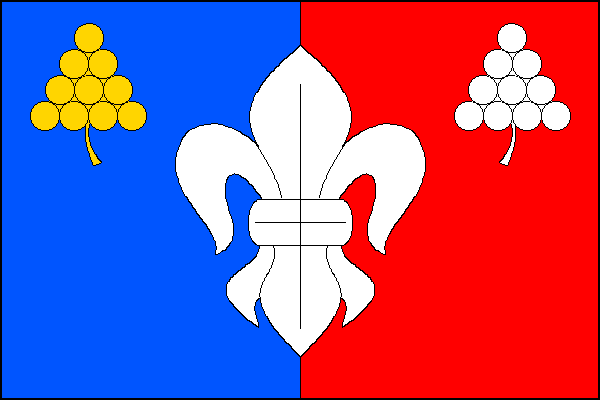 Flag of the municipal corporation Prakšice (Czech Republic)